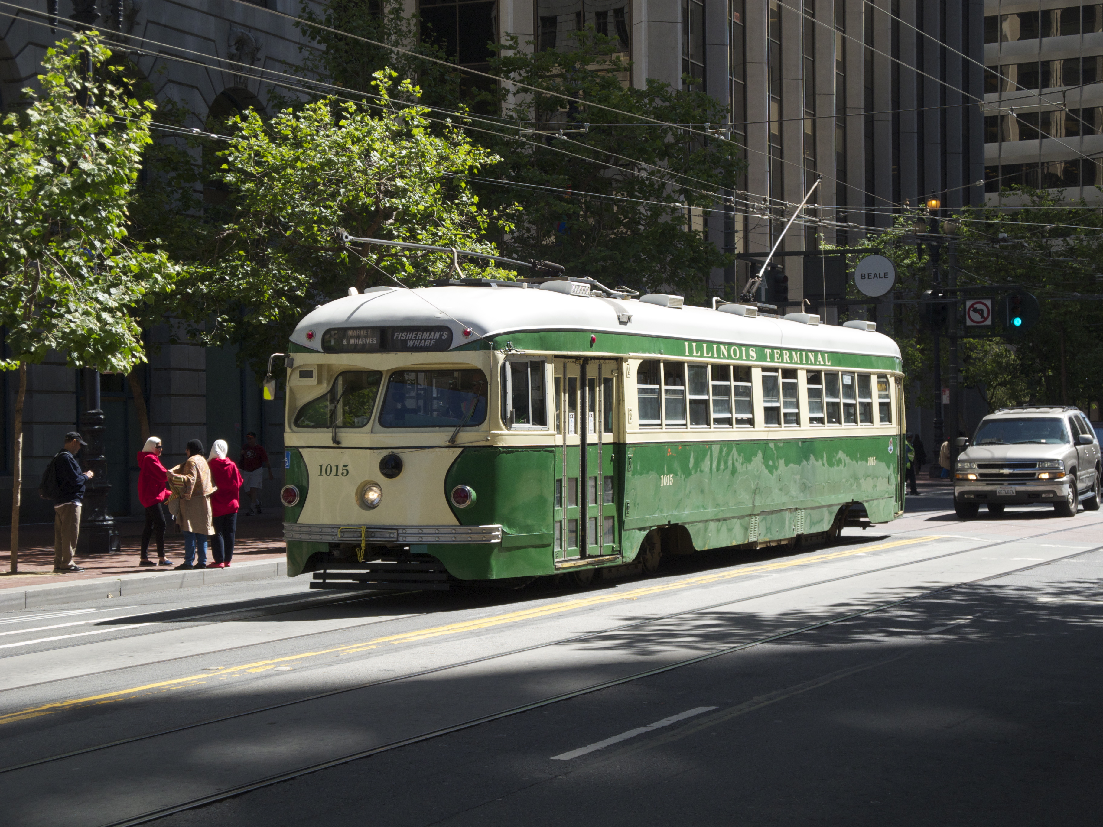 MUNI 1015, one of San Francisco's original double-ended PCC Streetcars, travels down Market Street in the colors of the Illinois Terminal Railway.